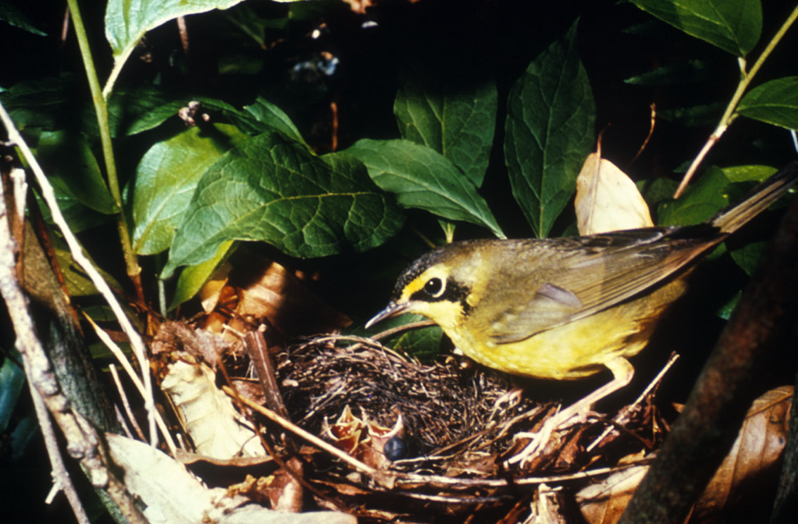 Kentucky Warbler (Oporornis formosus)